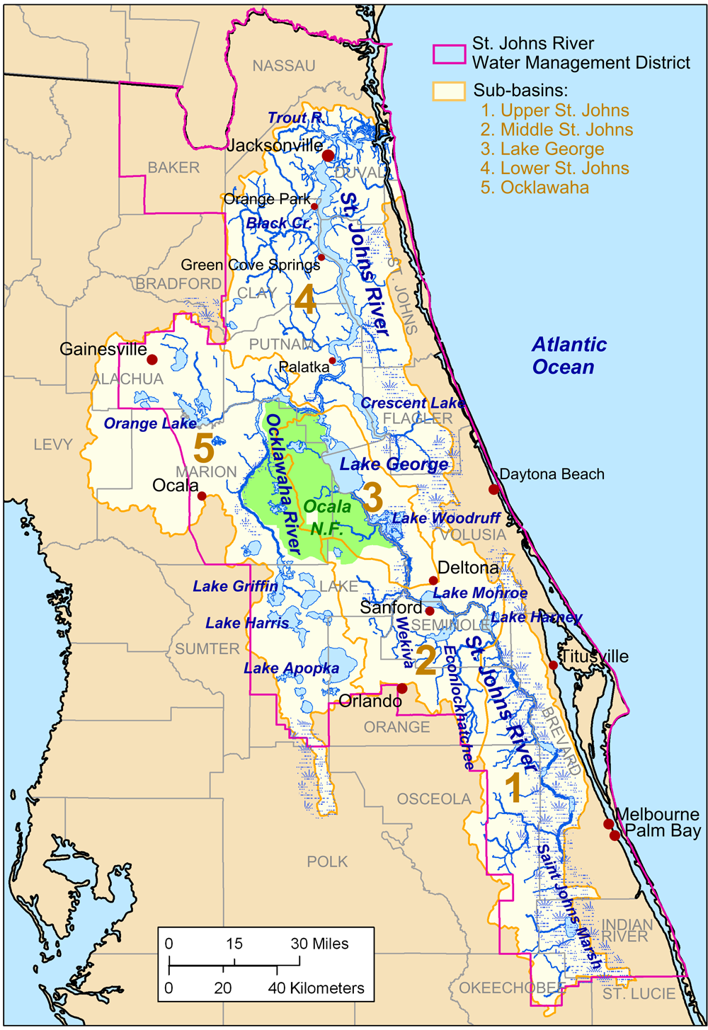 Map of the St. Johns River drainage basin.